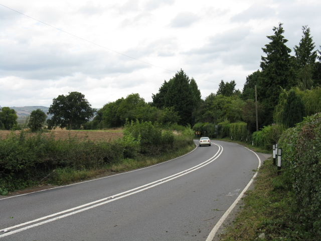 A49 Near North Lodge A fairly typical section of this appallingly poor road which remains the prime north-south route through The Marches. A wholesale programme of by-passes and upgrading to full dual carriageway standards between Shrewsbury and Ross is long, long overdue.